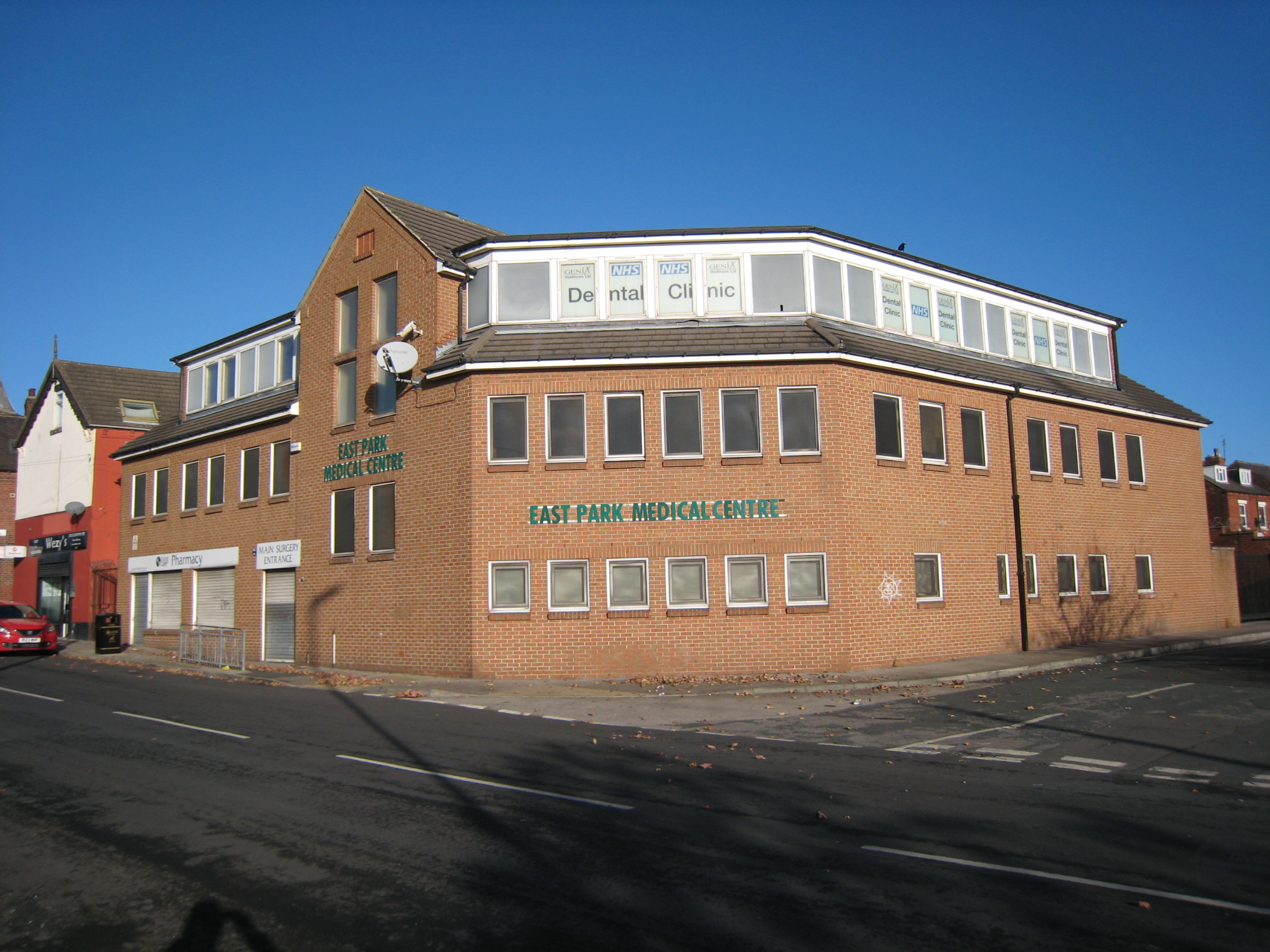 East Park Medical Centre, East Park Road,Richmond Hill, Leeds LS9 9JD.